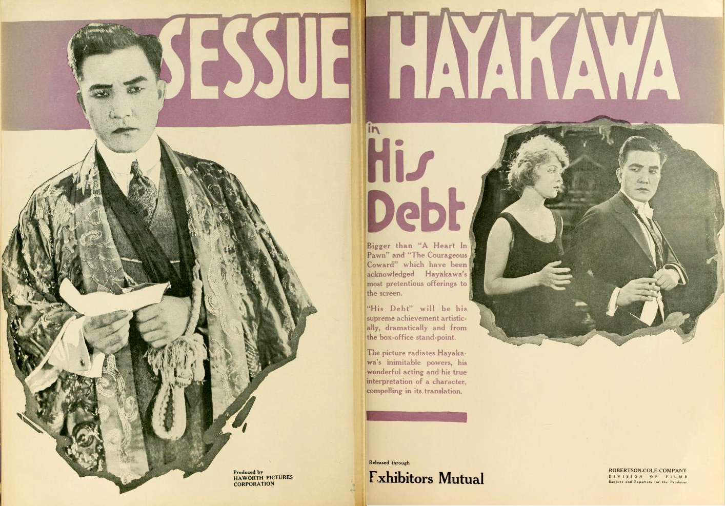 Advertisement in Moving Picture World, May 1919 for the film His Debt (1919).